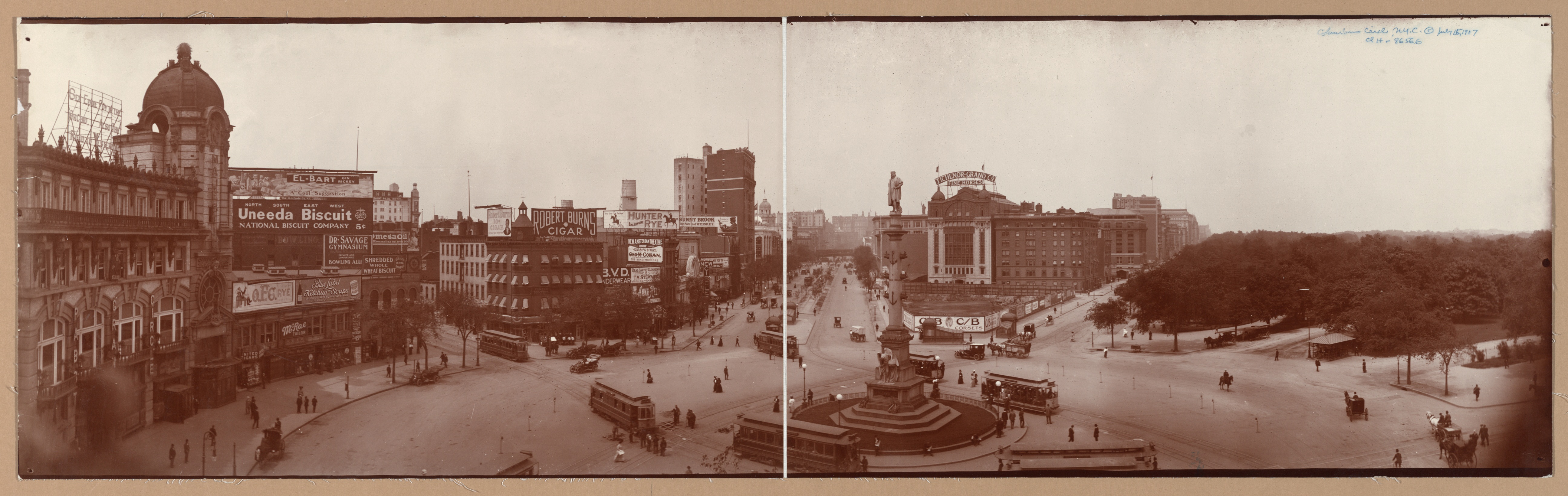 Columbus Circle, New York